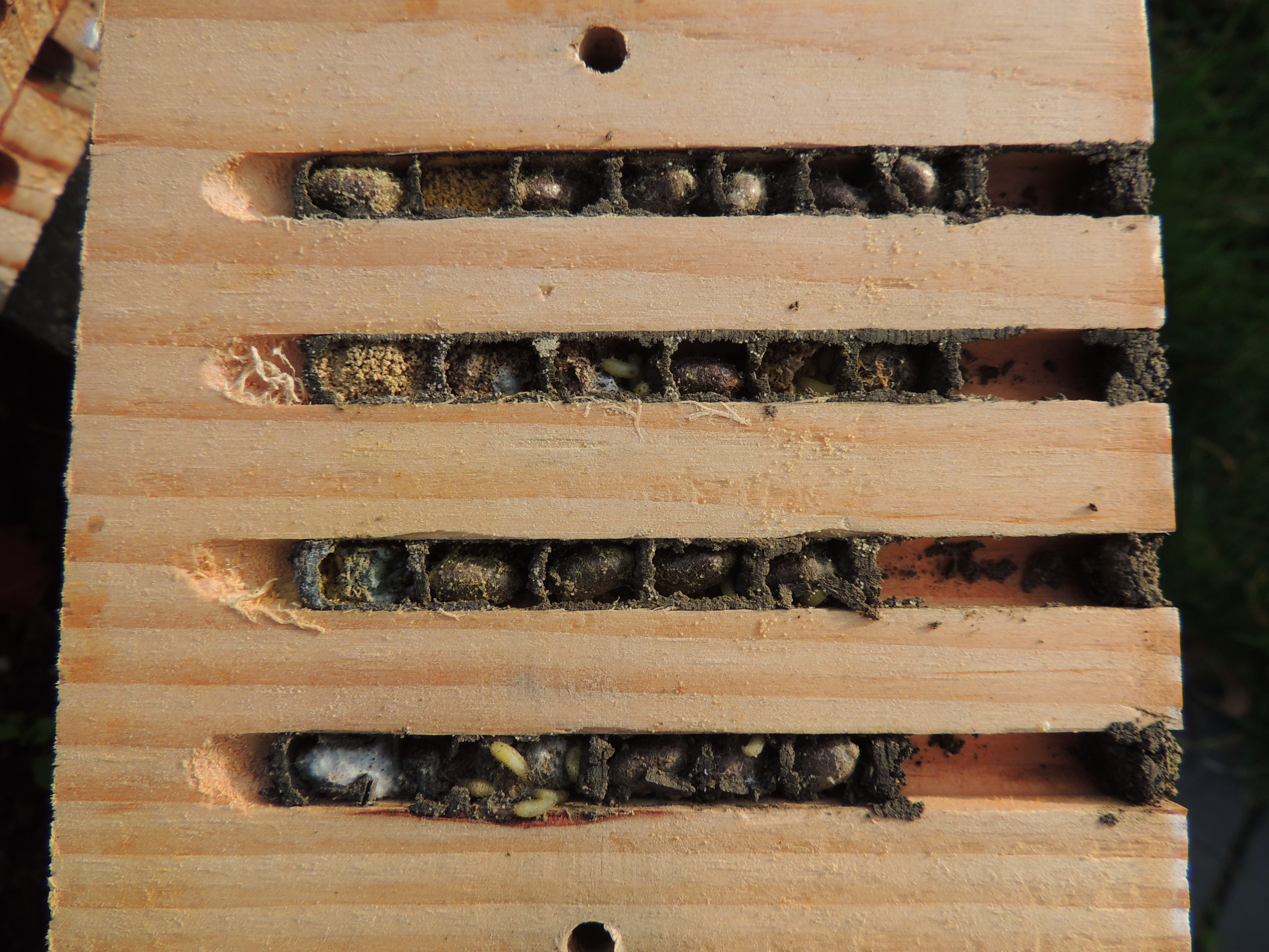 Red mason bee (Osmia bicornis) nest cells in a bee hotel, Sandy, Bedfordshire